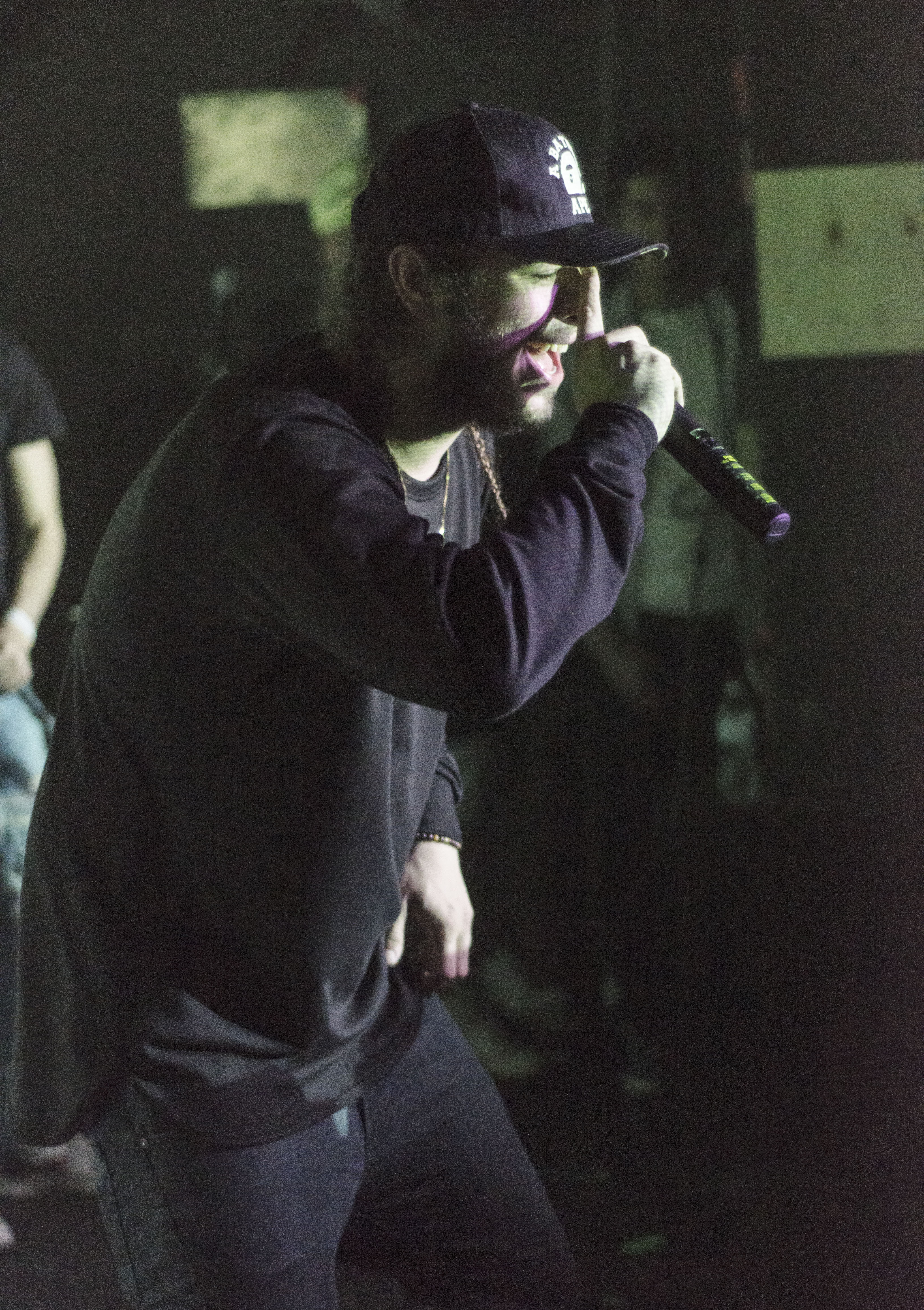 Post Malone @ Ritual Nightclub feat. Alex Lost, Kofee, Gutta King Chris, Yuukon and VNCHY